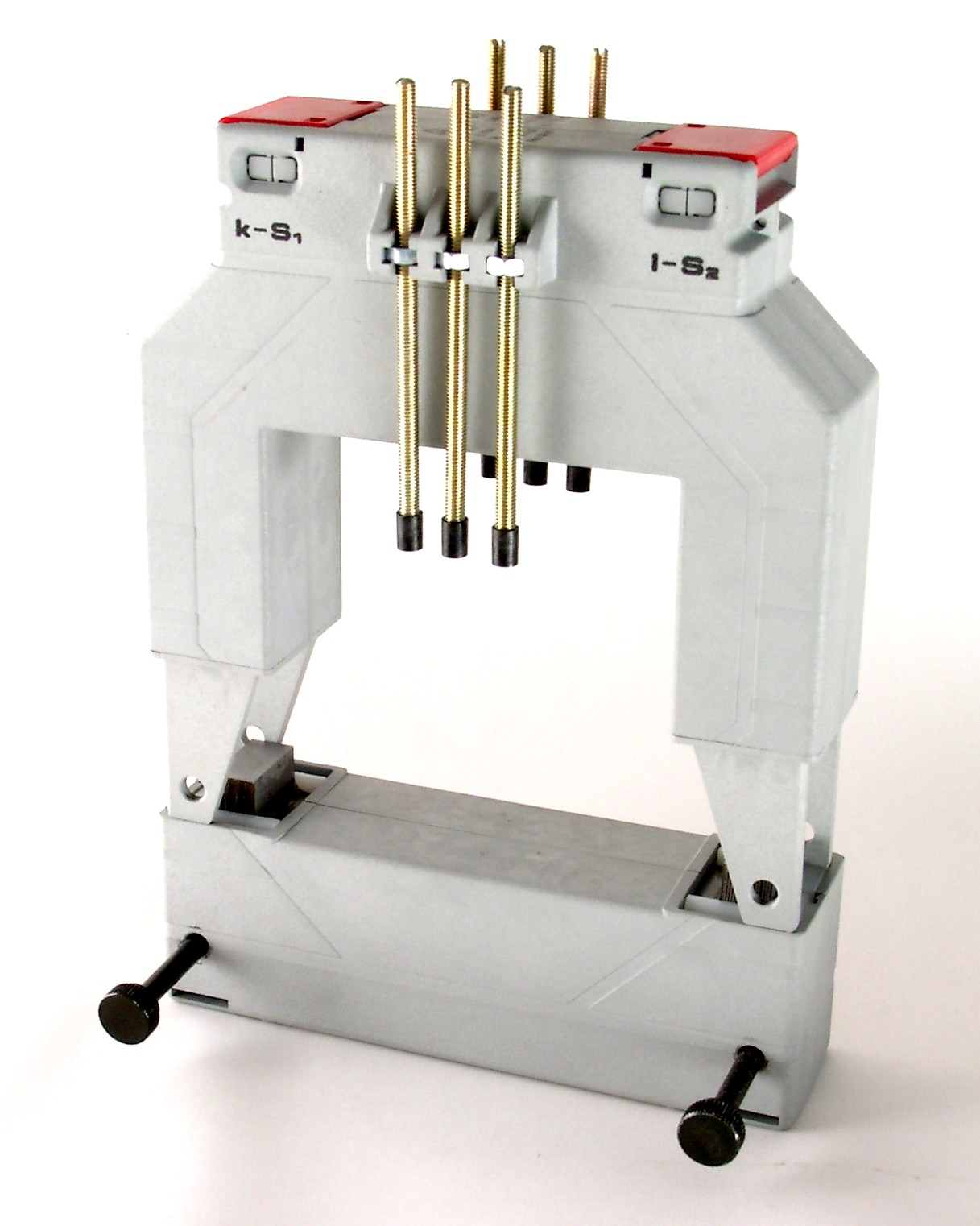 Current transformer